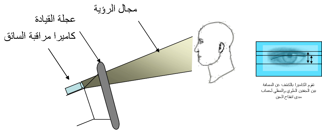 driver monitor camera